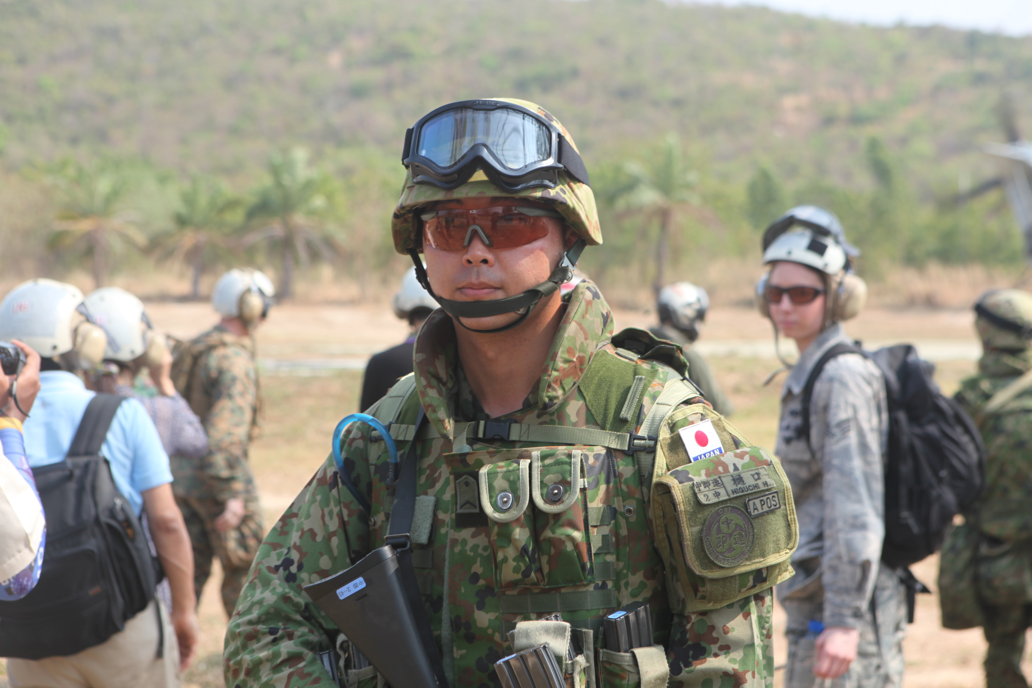 A member of the Japanese Self-Defense Force stands guard in front of Japanese civilians being evacuated during a multi-lateral non-combatant evacuation operation exercise, Feb 12. The NEO exercise, held during Cobra Gold 2011, brought together the U.S., Thai, and Japanese armed forces in order to exchange ideas and prepare for potential evacuations involving their citizens in foreign countries.